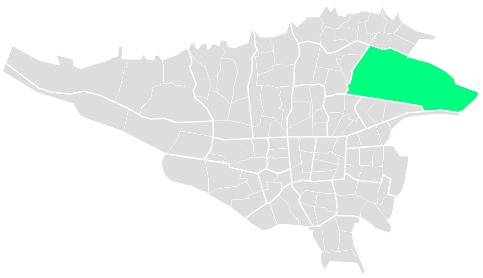 Region 4 of Tehran